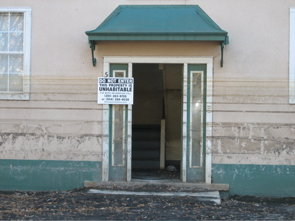 New Orleans after Hurricane Katrina: Doorway of apartment with visible flood lines and sign declaring it "Unhabitable". Flood silt on ground.